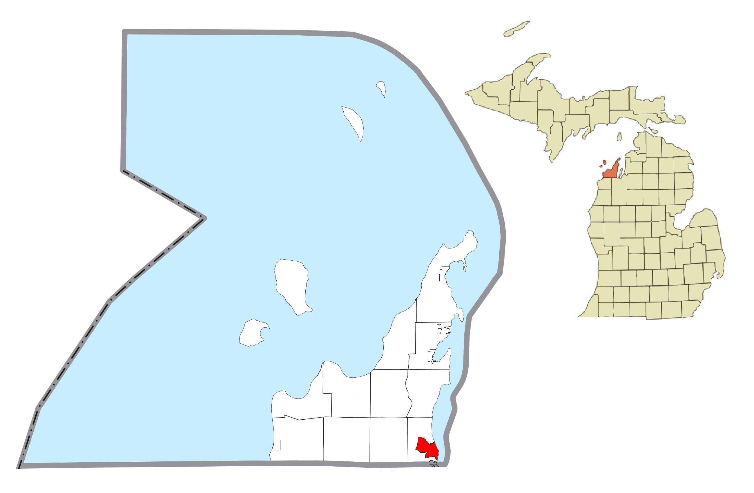 Greilickville, MI